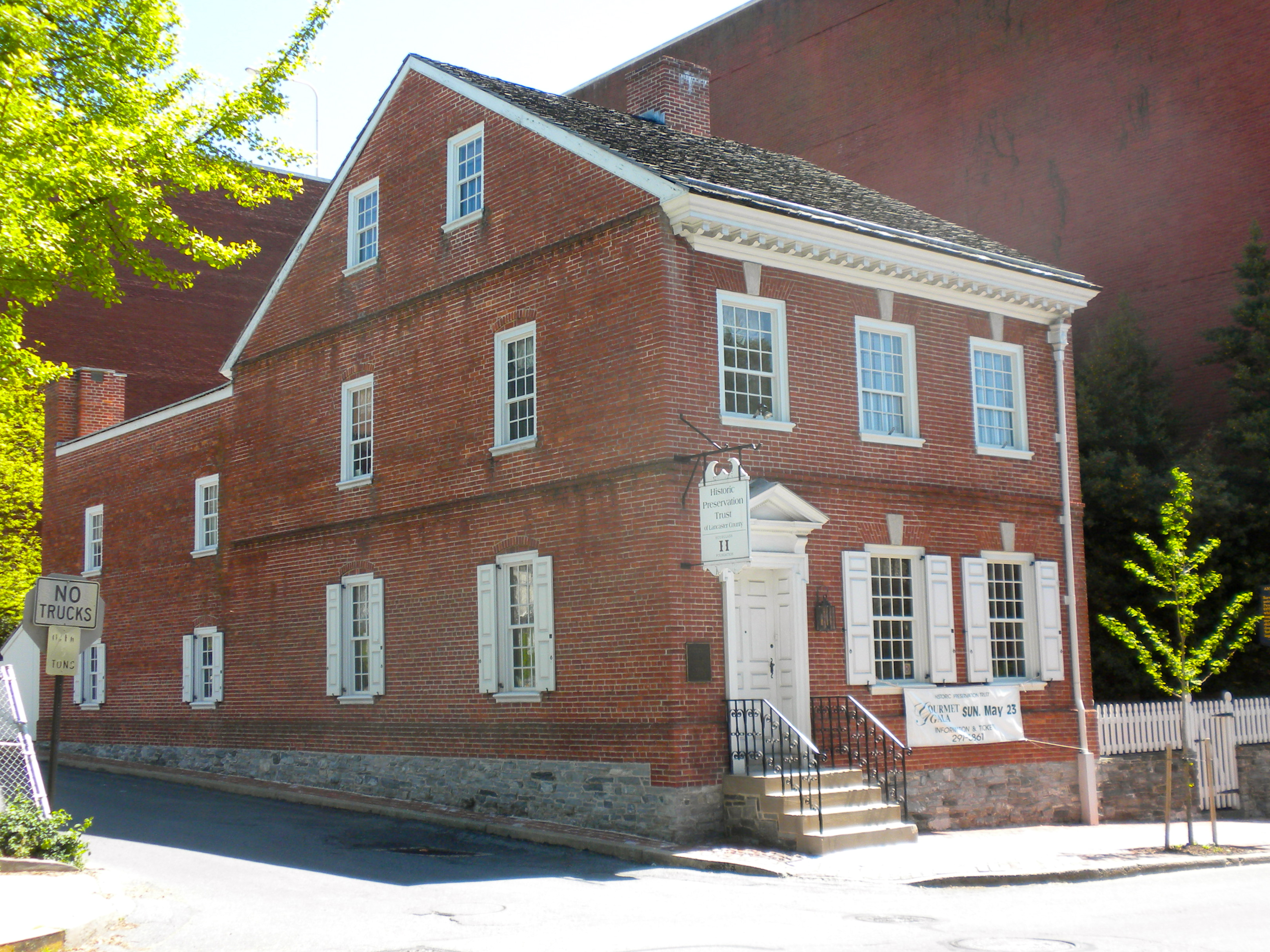 Andrew Ellicott House on NRHP since January 13, 1972. At 123 North Prince Street in Central Business District of Lancaster, PA. Taught Meriwether Lewis surveying here